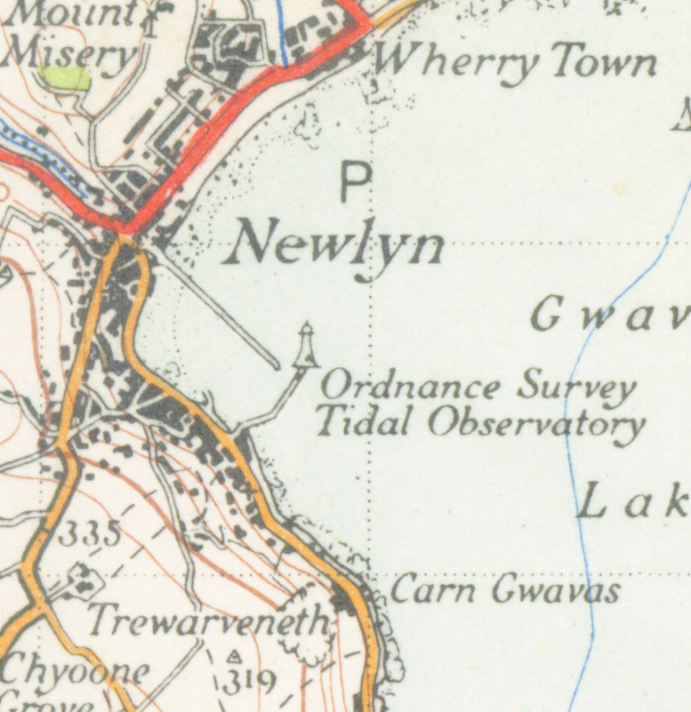 Map of Newlyn from Tidal observatory 1946. Scale 1 inch to the mile 600DPI Sheet 189